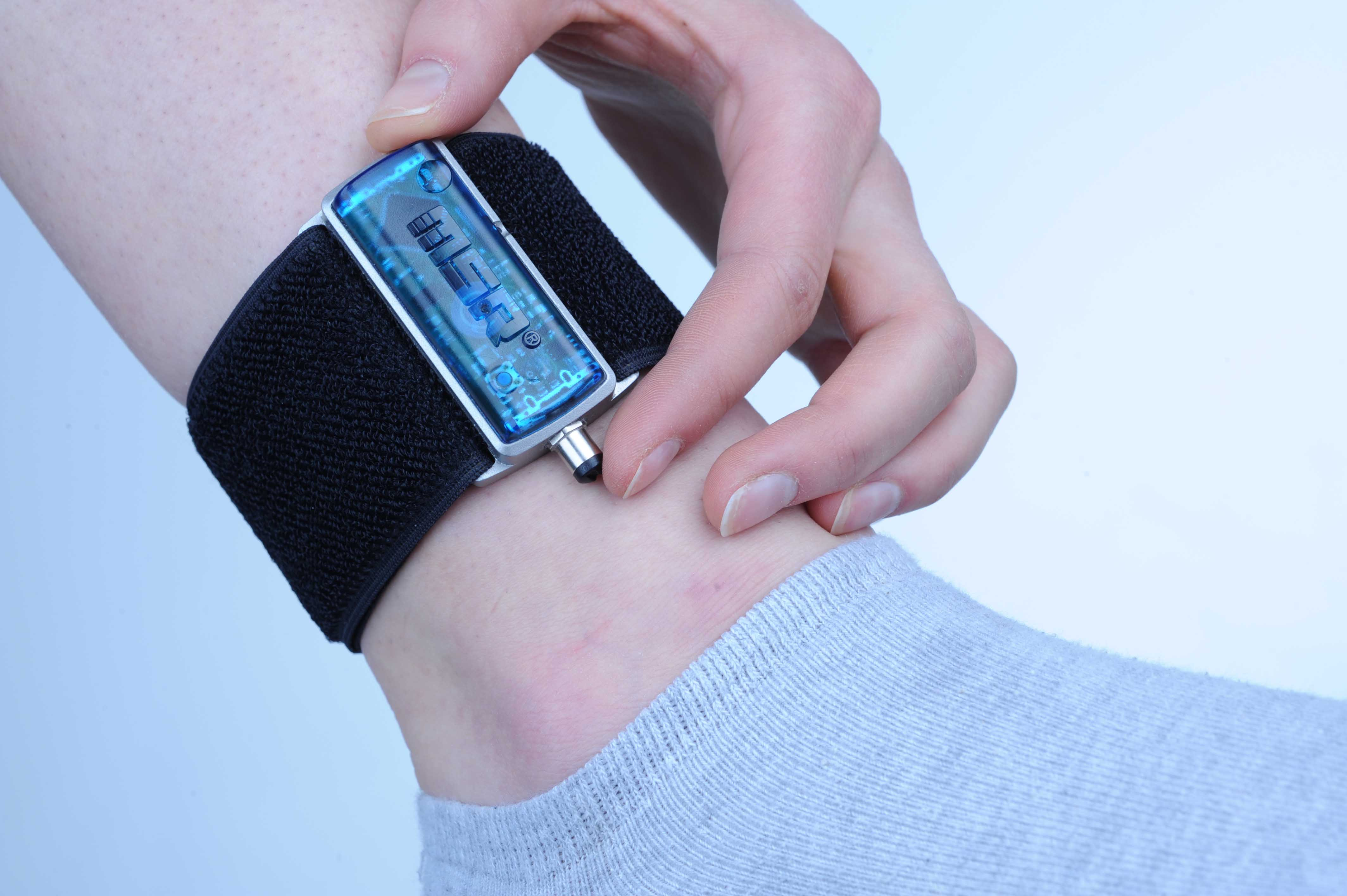 movement monitoring with a datalogger (MSR145), integrated 3-axis-acceleration sensor